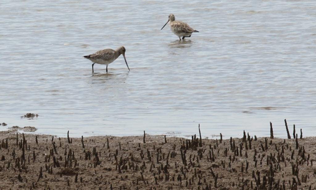 Bar-tail Godwits feeding on coastal foreshore at G.J. Walter Park, Cleveland, Queensland.